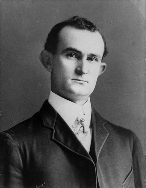 Sam Ealy Johnson, Jr. Texas politican and father of US President Lyndon B. Johnson